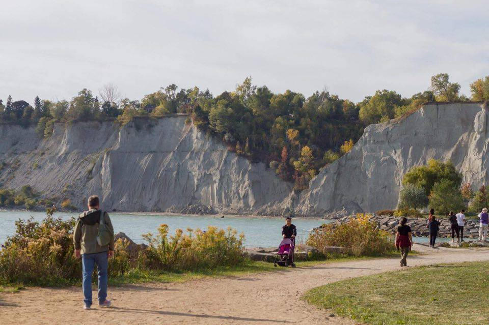 Scarborough Bluffs and Bluffers Park. Scarborough, Toronto, Ontario, Canada